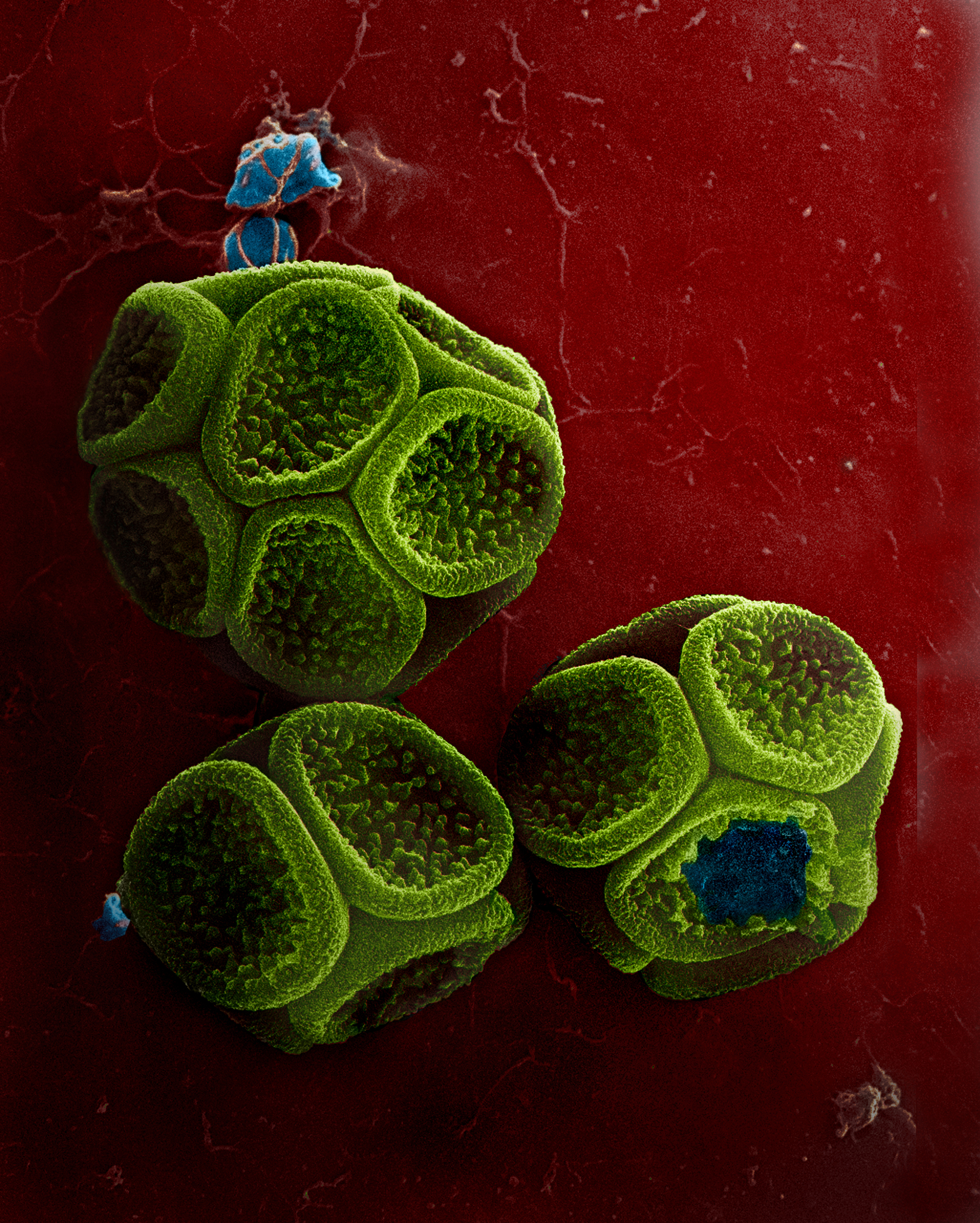 Spore clusters, formed inside sporangia of the myxomycete Reticularia olivacea from pine forests of the Eastern Ukraine. Myxomycetes are giant amoebae, capable to form fungi-like fruiting. Microphotograph is made with scanning electronic microscope and coloured with the computer graphic tools. Magnification x2500